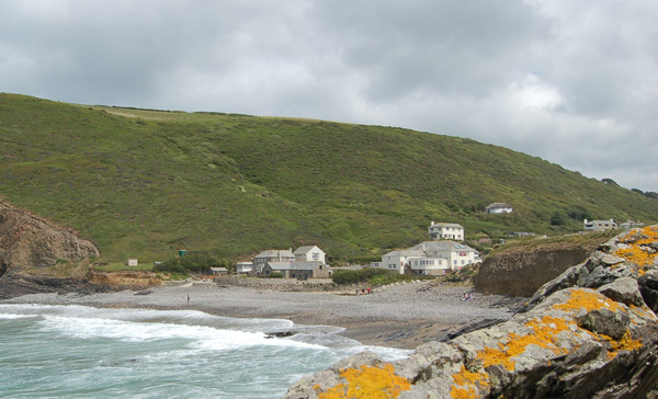 Crackington Haven in Cornwall photographed in 2005